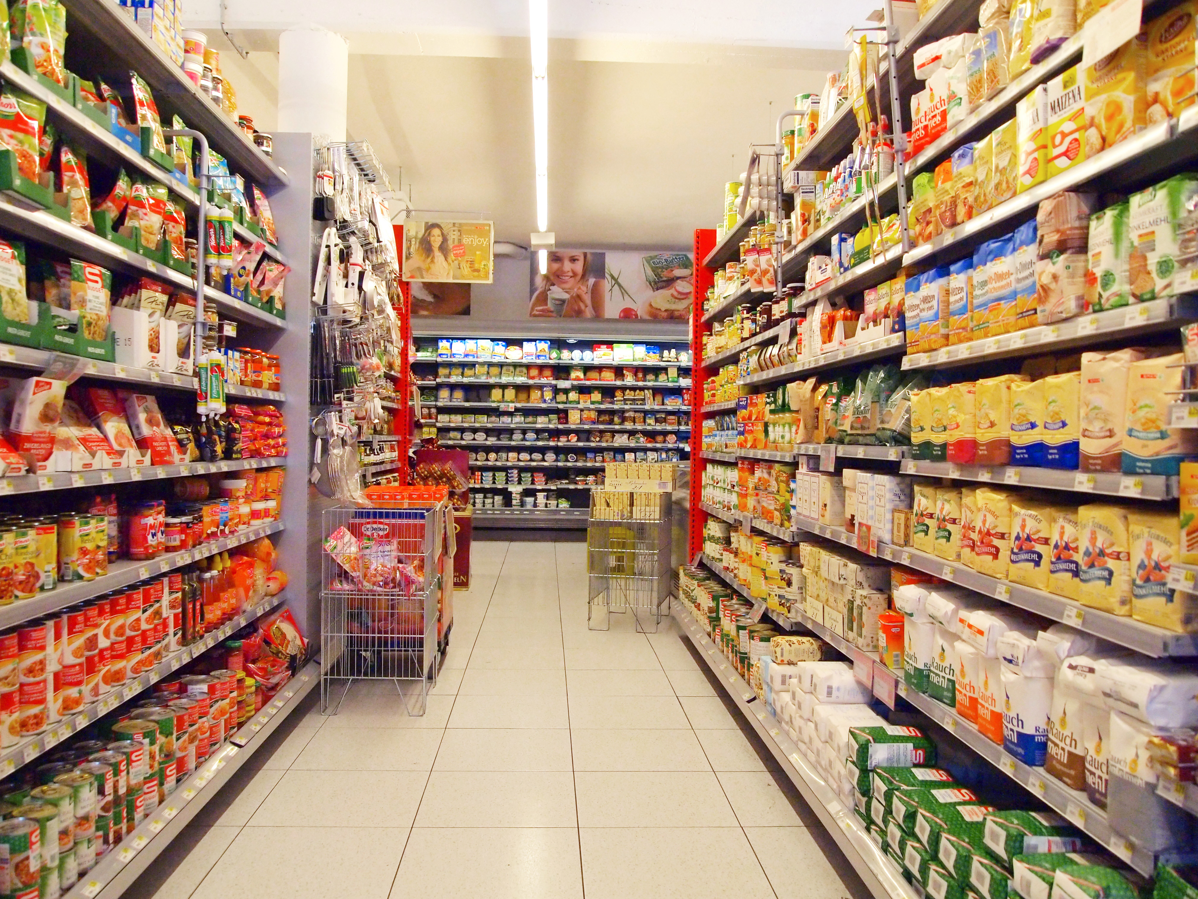 Interior of SPAR shop in Ehrwald, Austria. This photograph was taken with a Olympus E-PL1.